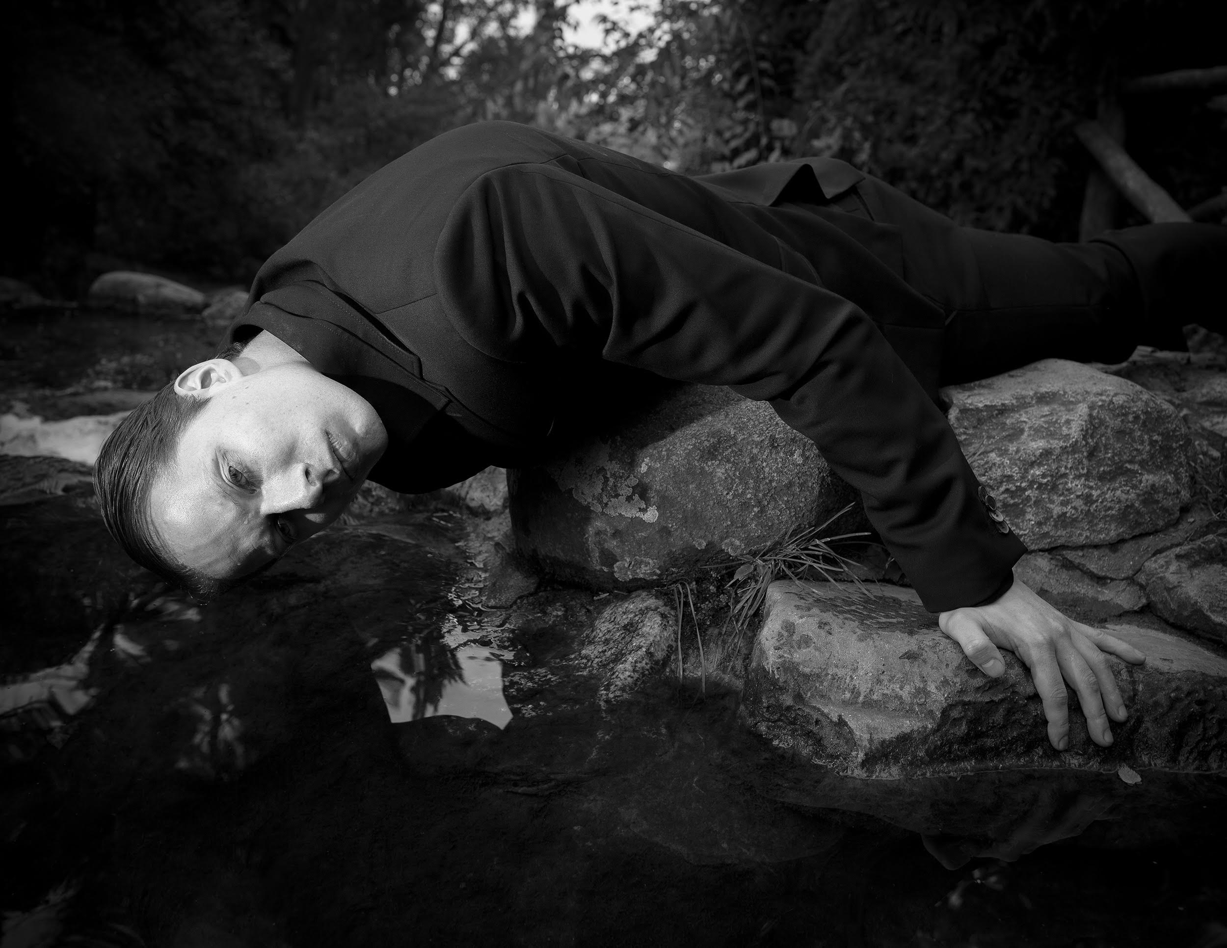 Maximilian Jaenisch portrayed by Oliver Mark, Berlin 2017